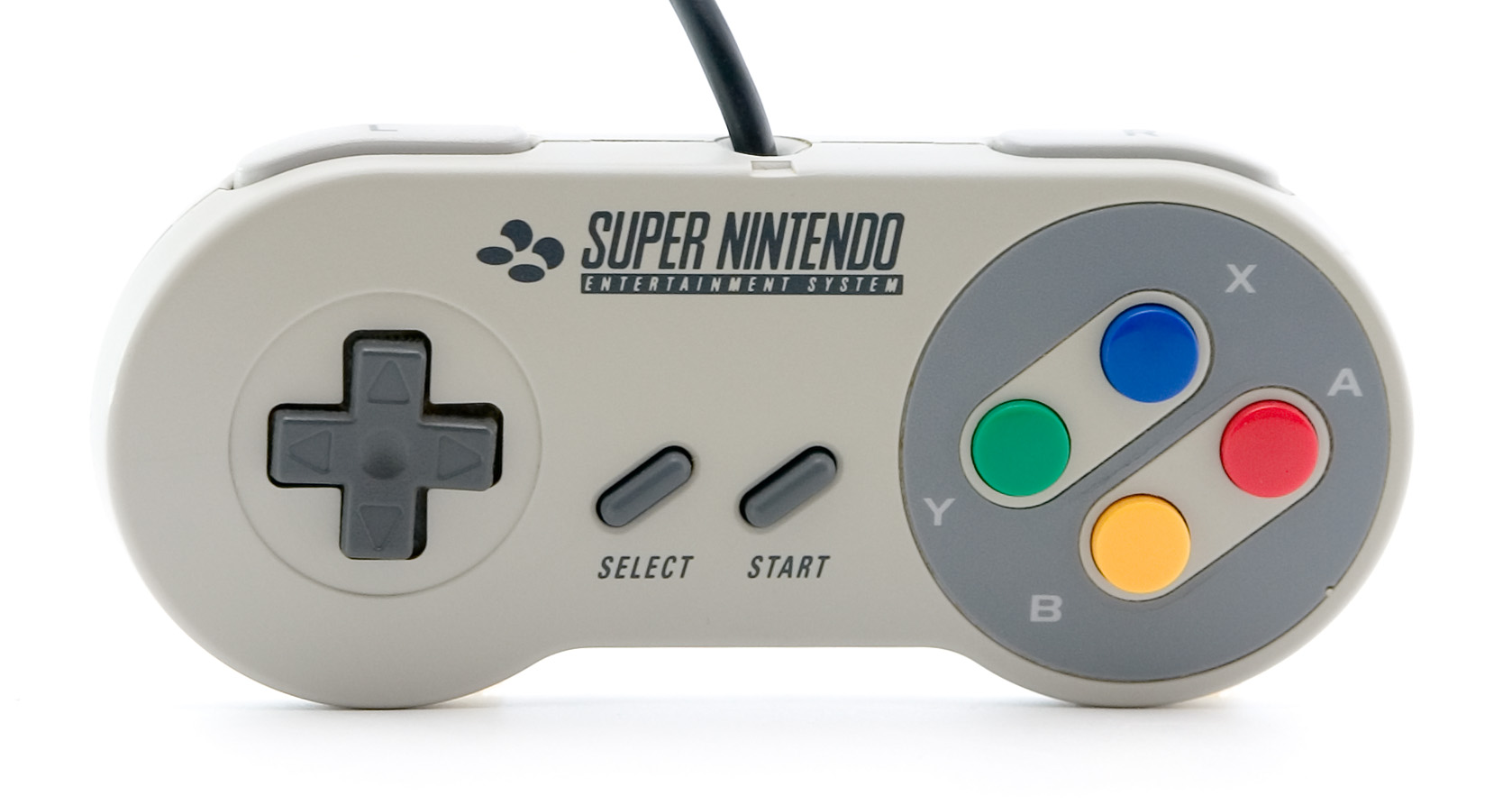 A SNES controller, PAL version. Picture created by User:PJ April 14 2007.